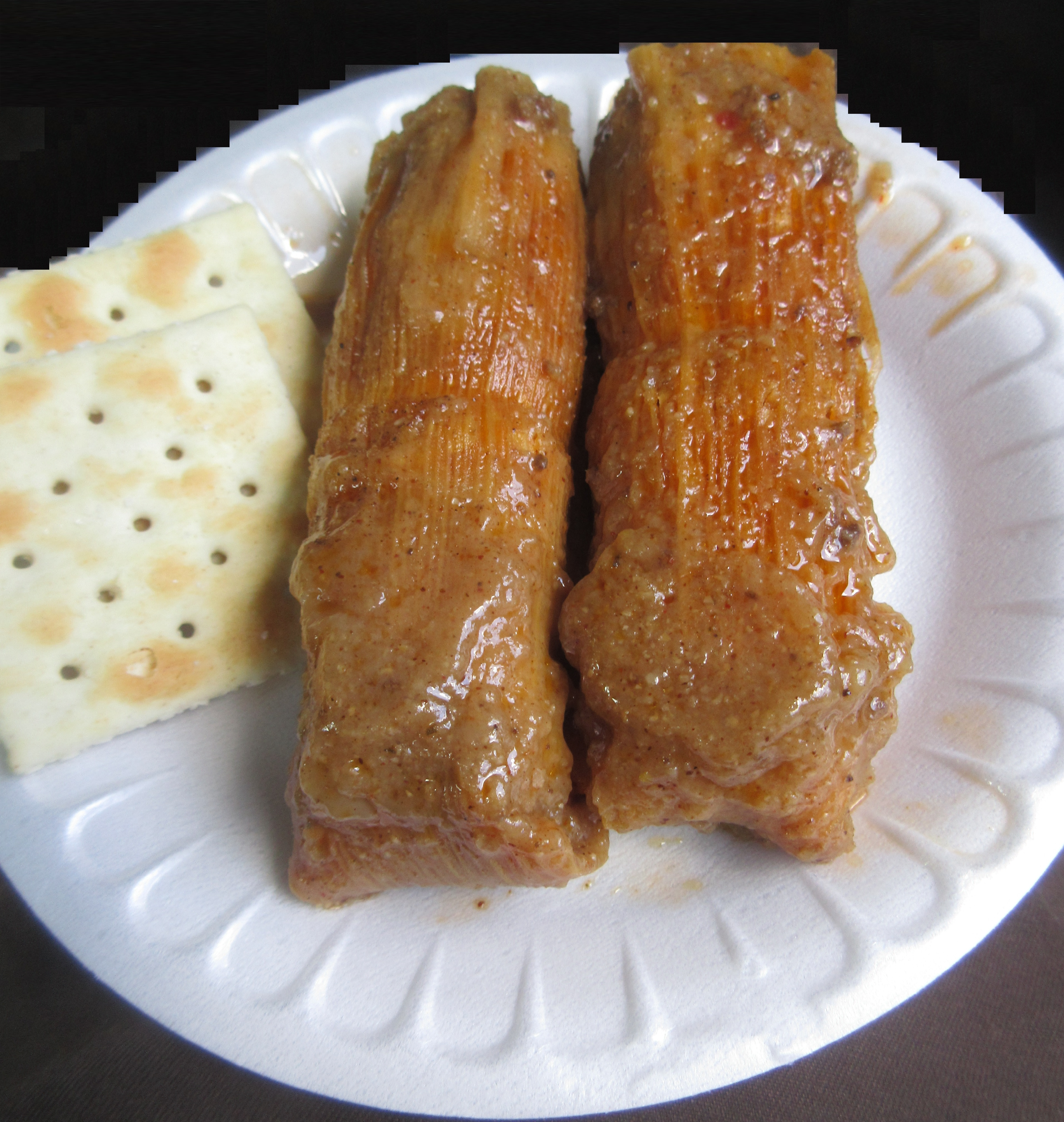 Mississippi tamale, from Hick's of Clarksdale.